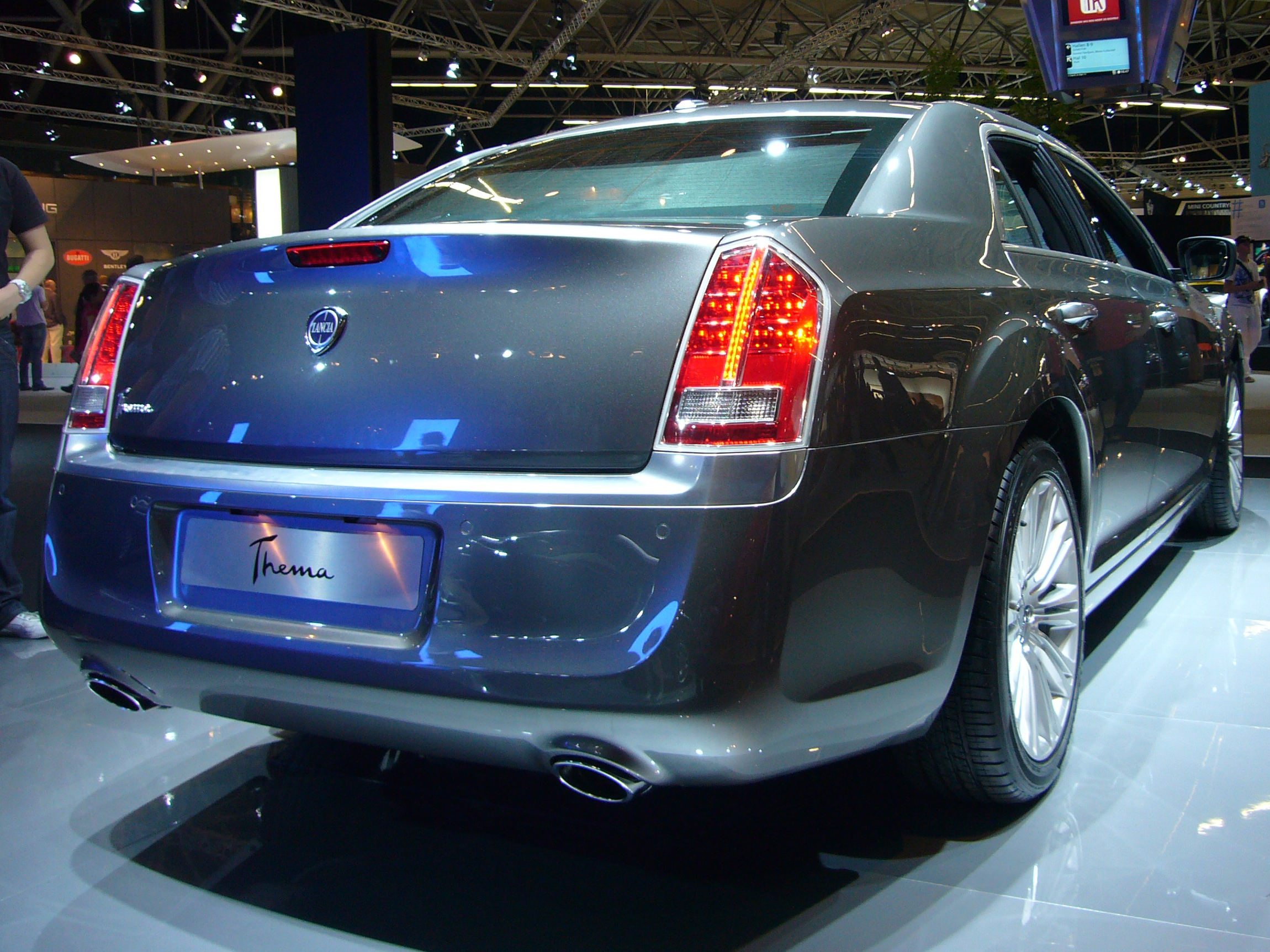 Lancia Thema at AutoRAI Amsterdam 2011